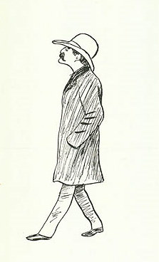 Caricature of Isac Heiman Salmonsen (1846-1910), Danish publisher